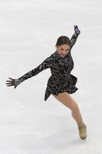 Elene Gedevanishvili at the 2010 Winter Olympics.